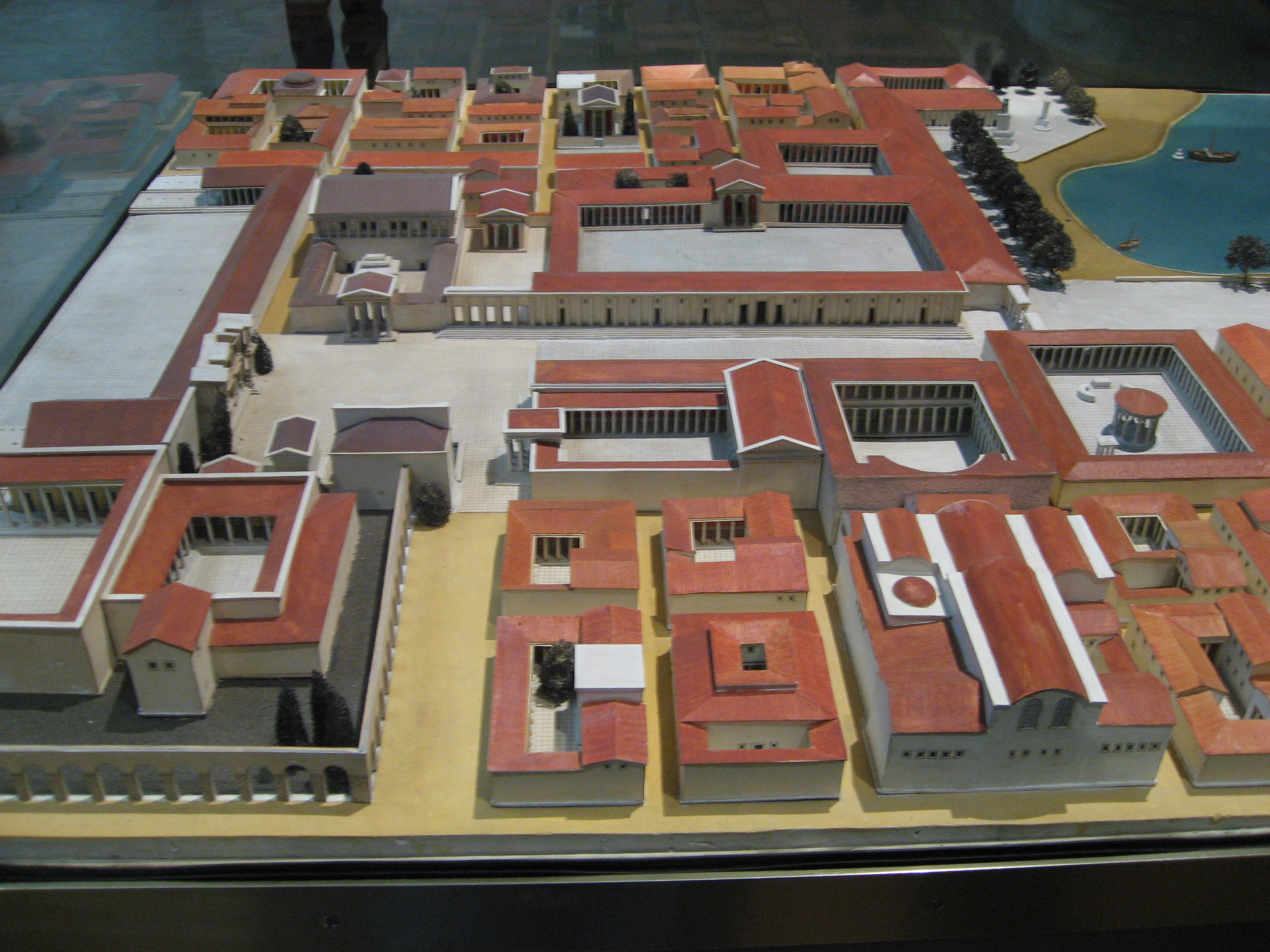 city model of Milet, the markets and surroundings around 200 AD. Models were made in 1968 by H. Schleif and K. Stephanowitz. Scale is 1:300